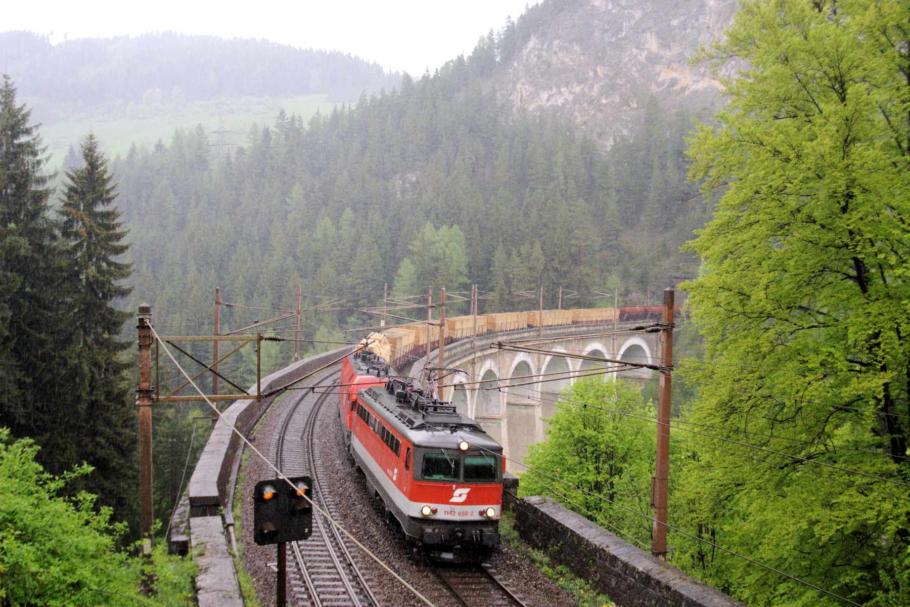 ÖBB Class 1142 supporting a Taurus engine with a freight train on the Kalte Rinne viaduct on the Semmering line